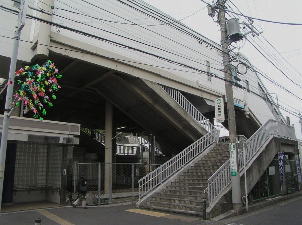 Mutsuura station west entrance